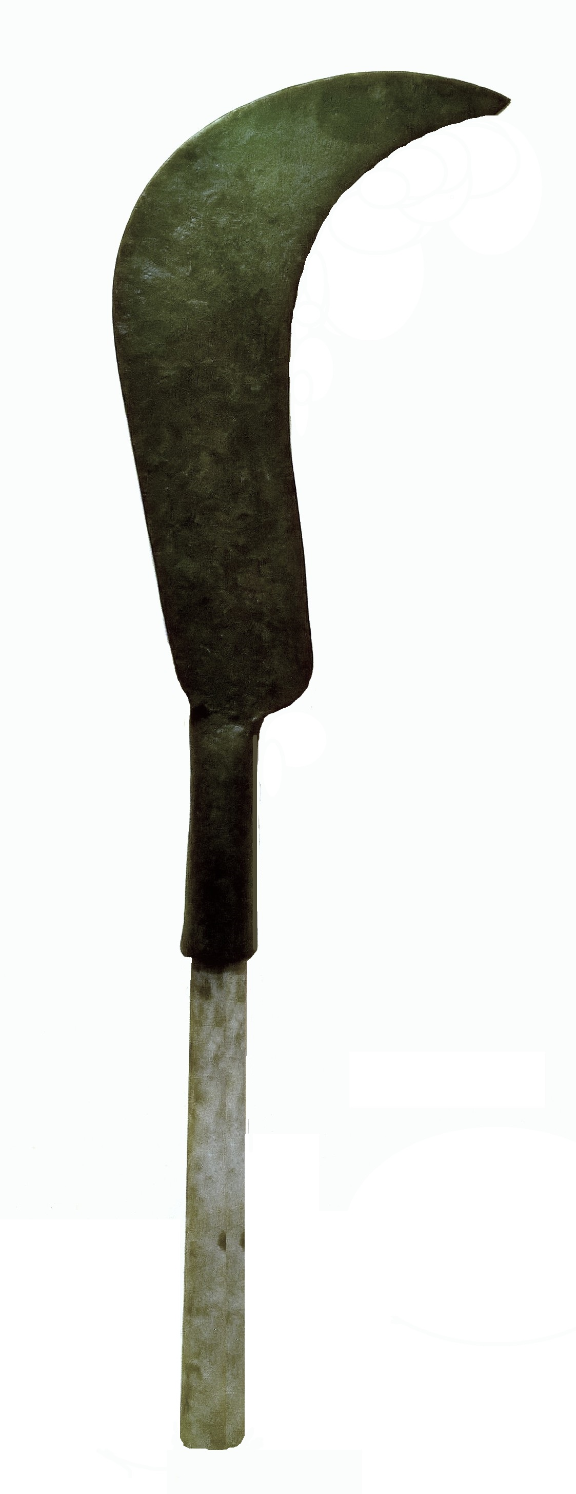 Sicily island